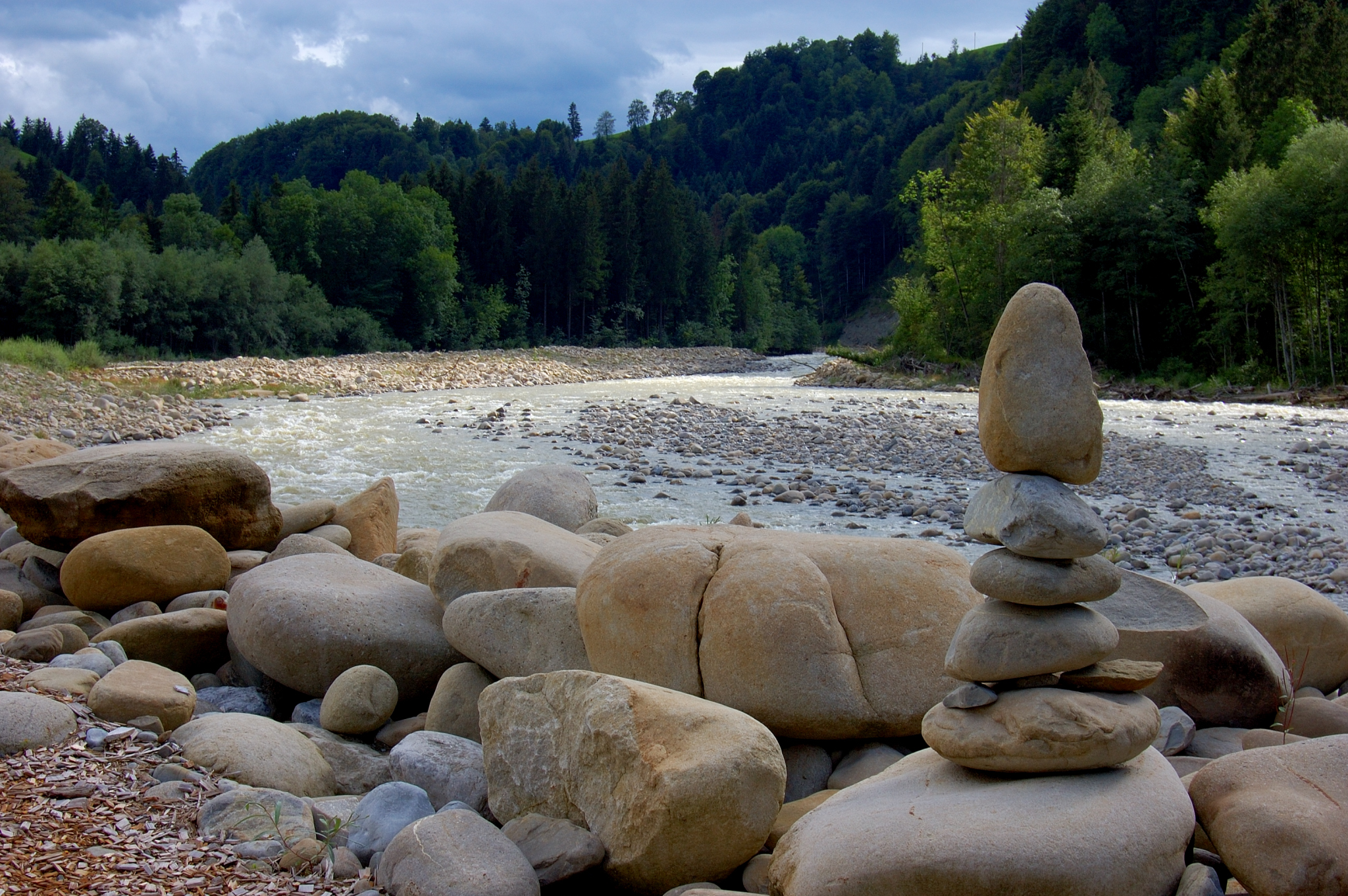 water-meadow landscape of the river "kleine Emme" in Switzerland, Entlebuch region